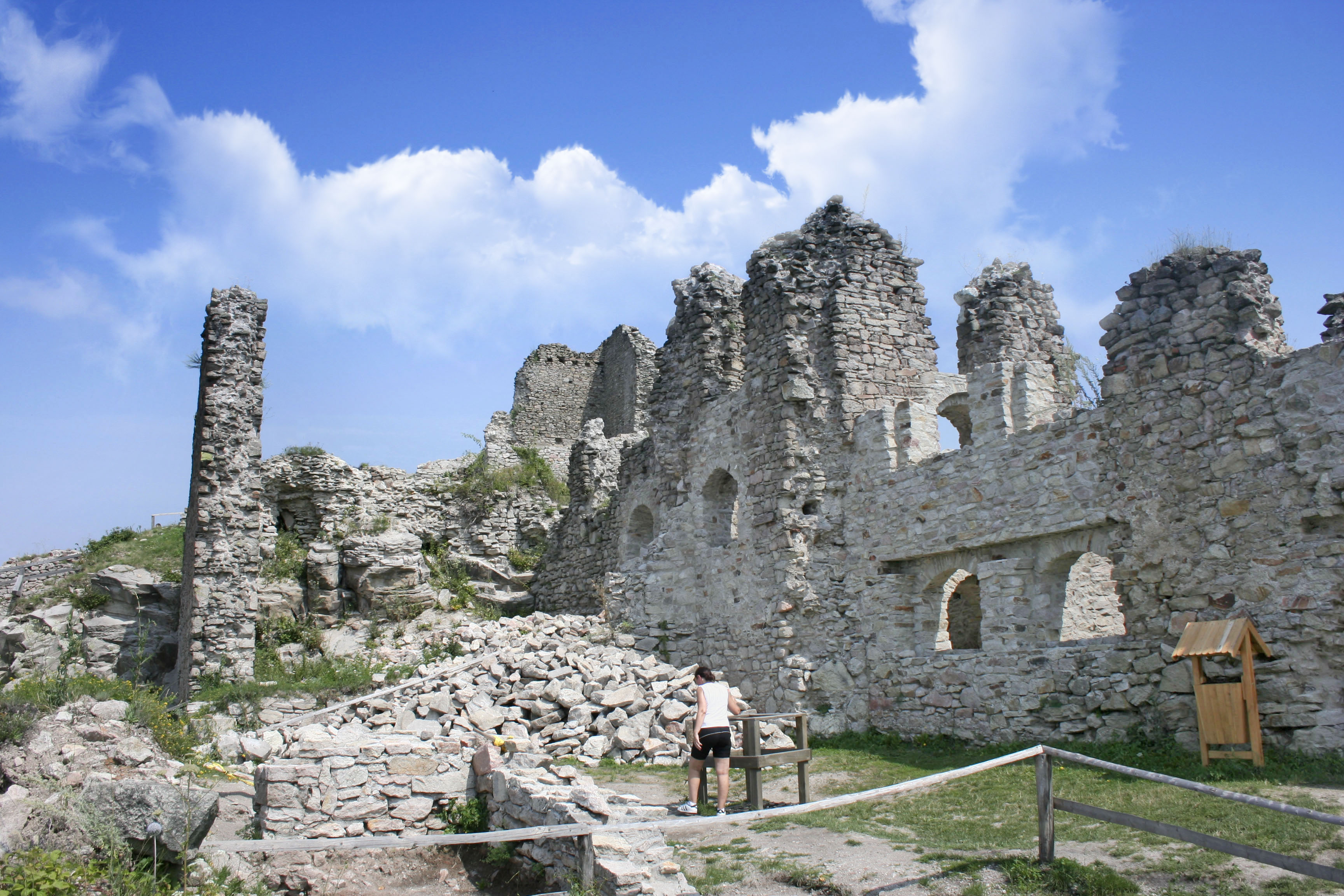 Regéc Castle - the central part of the castle palace, with the northern tower